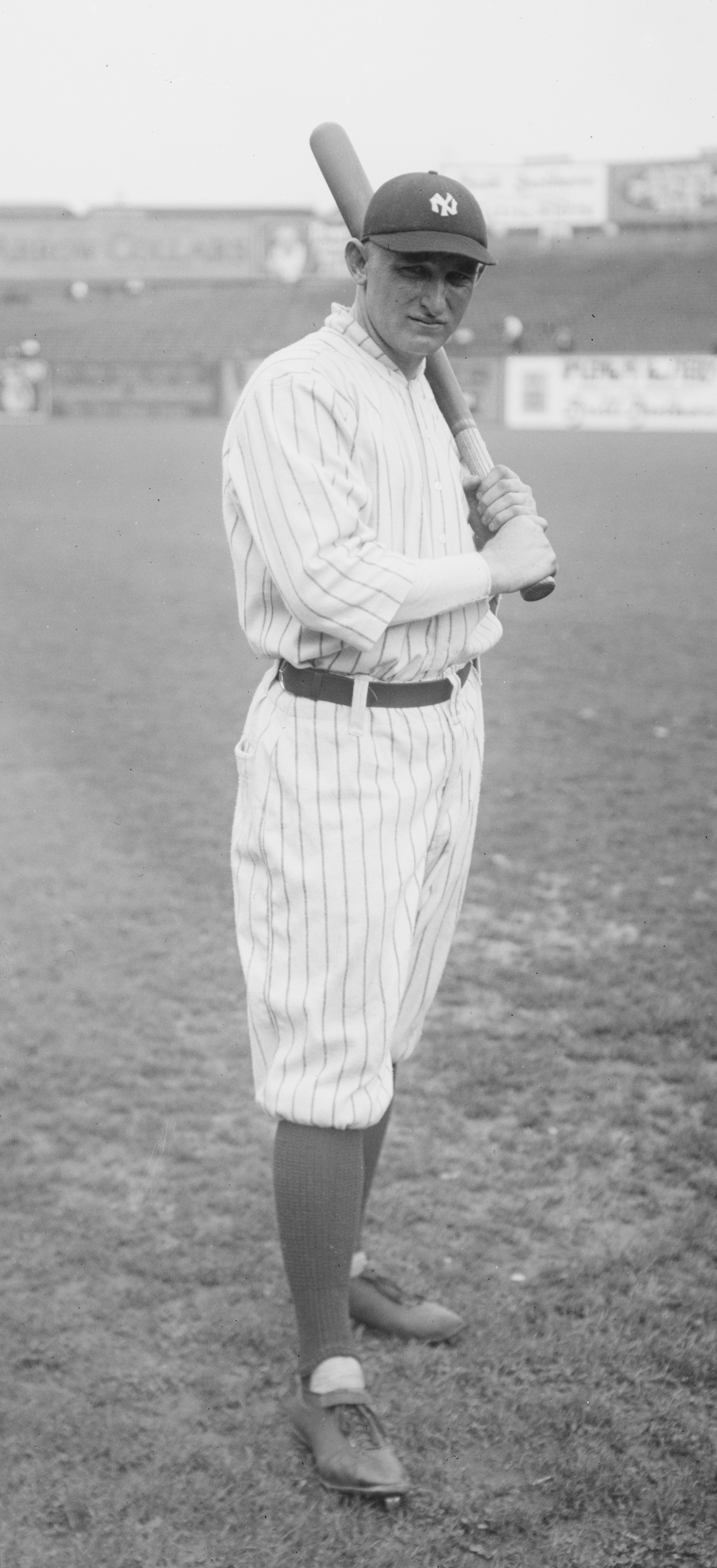 This photo depicts Carl Mays in a New York Yankees uniform at the Polo Grounds sometime during 1919-22. Mays played on the New York Yankees from mid-1919 through 1923. The Yankees moved from the Polo Grounds to Yankee Stadium at the start of the 1923 season. That same year, the Polo Grounds wooden bleachers (shown in background here) were replaced by permanent seating. Hence the photo is from 1922 or earlier.